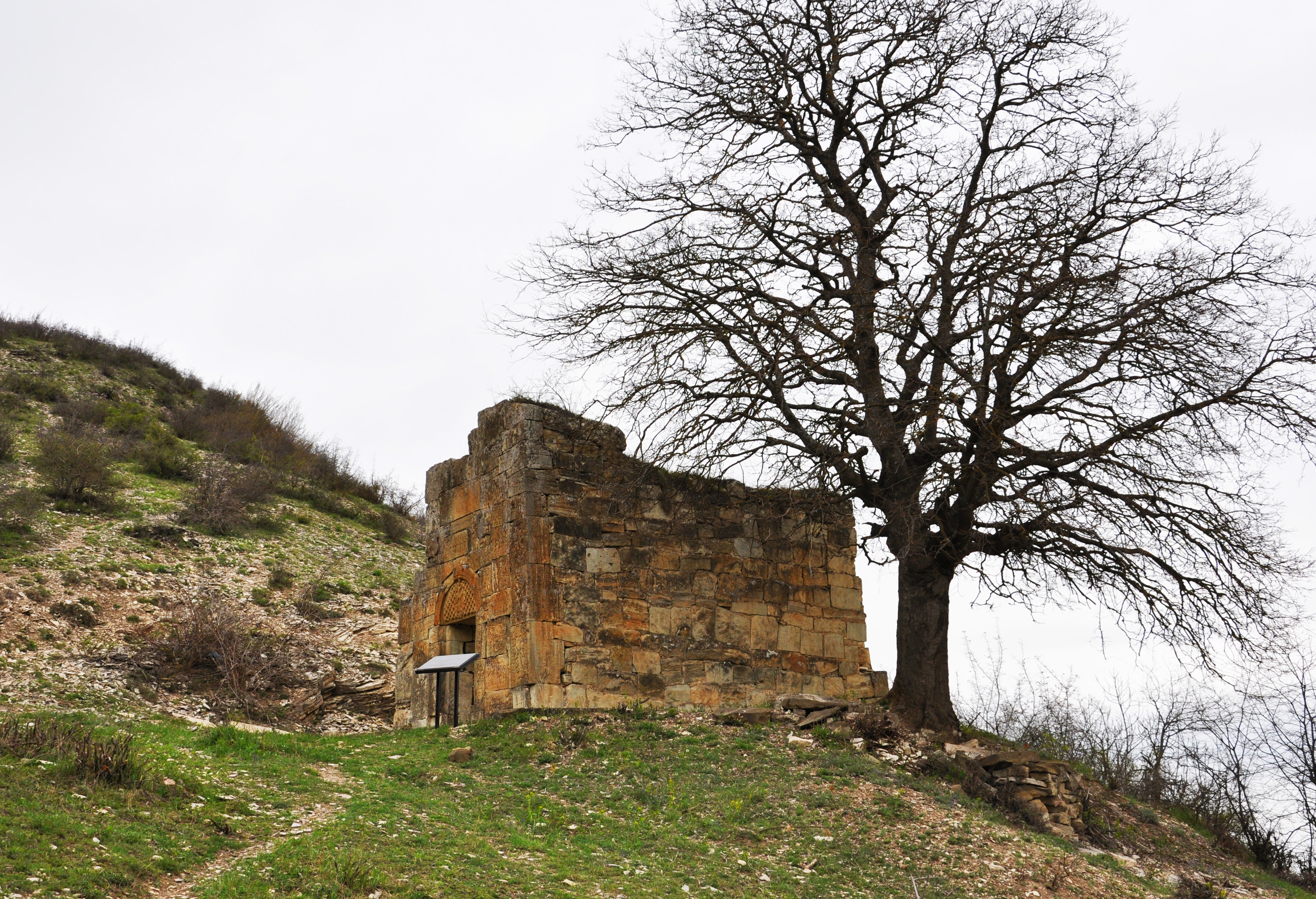 The ruin of church in Hatsi, Martuni province, Artsakh.